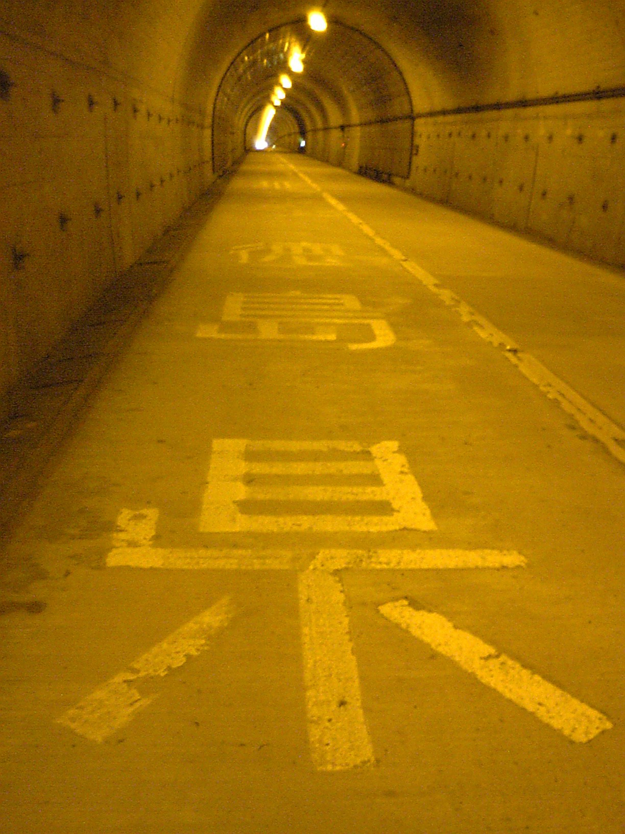 Photograph of gdrag.